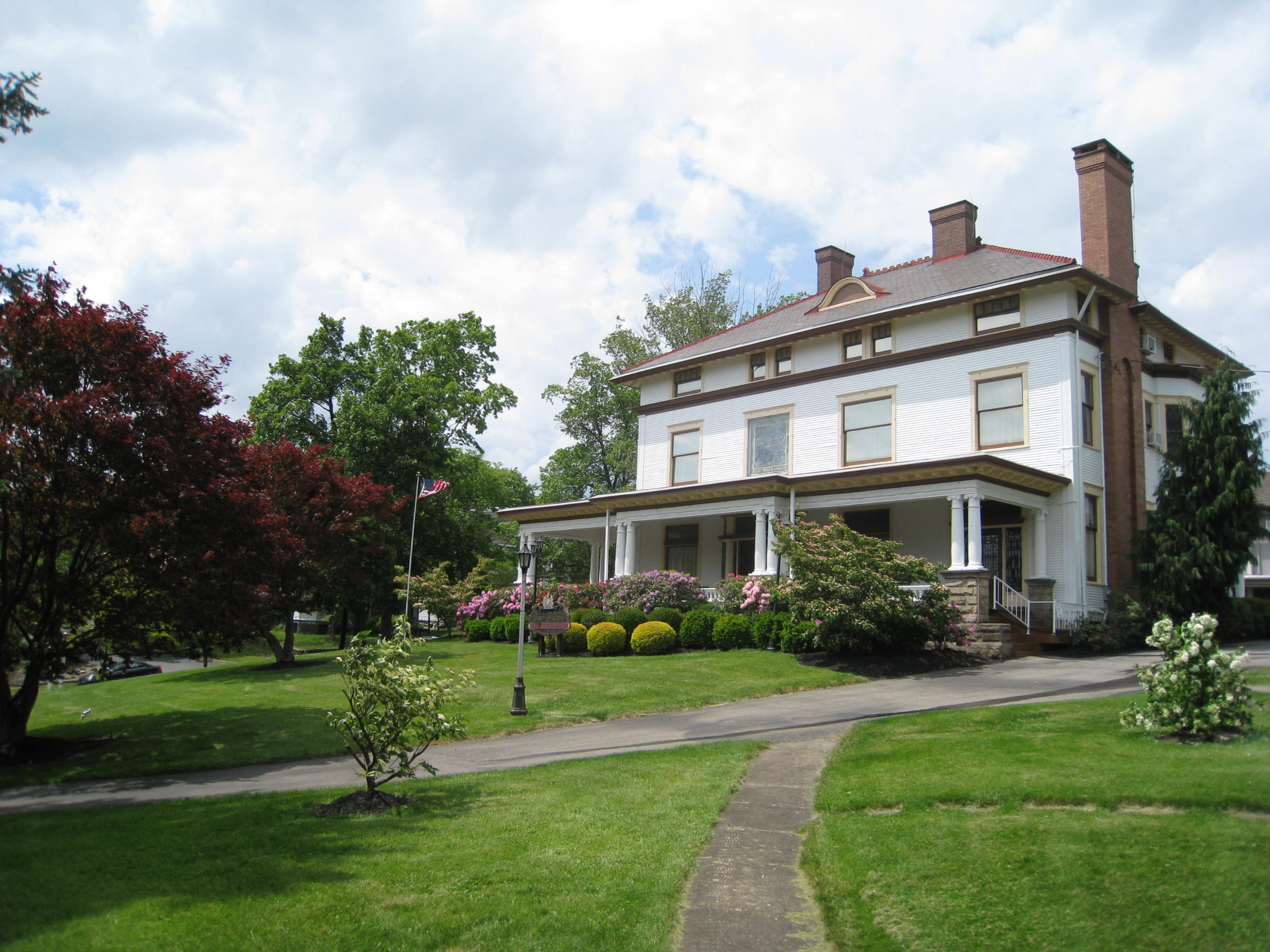 Photo of the Greer Residence taken from Lincoln Avenue